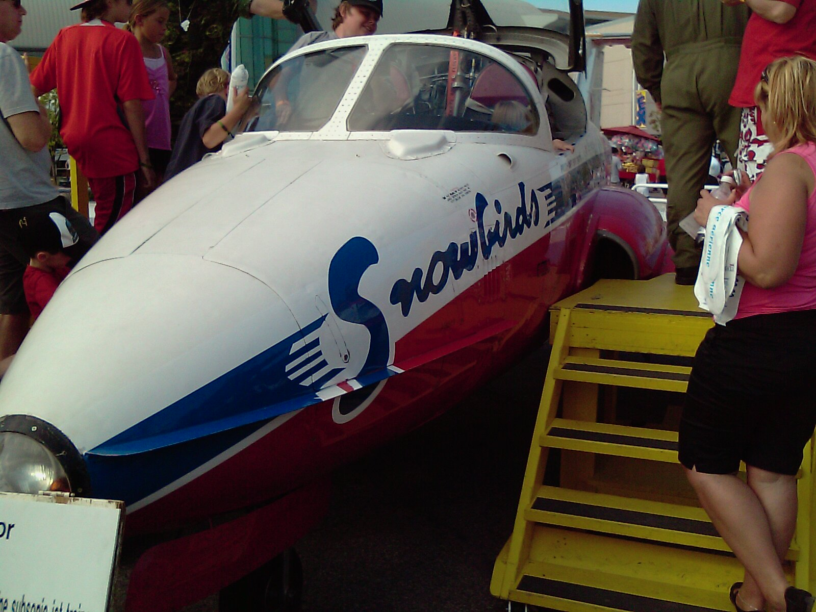 Snowbird on Display, CNE, 2008